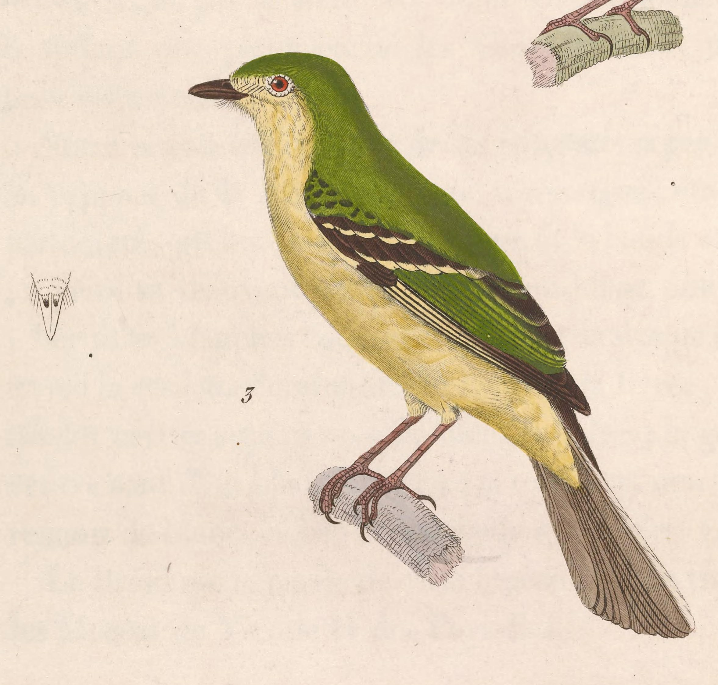 « Muscicapa virescens » = Phyllomyias virescens (Greenish Tyrannulet) - male